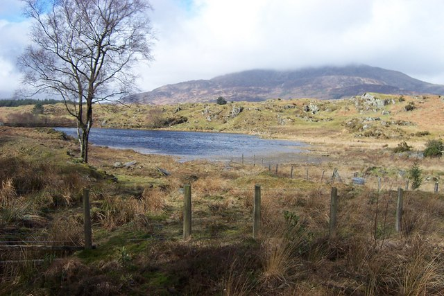 Reservoir near Pont-y-Pant. Reservoir near Pont-y-Pant at SH 74875 54182 with Moel Siabod behind in the cloud